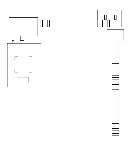 Idealised bent axis royal tomb Idealised bent axis royal tomb